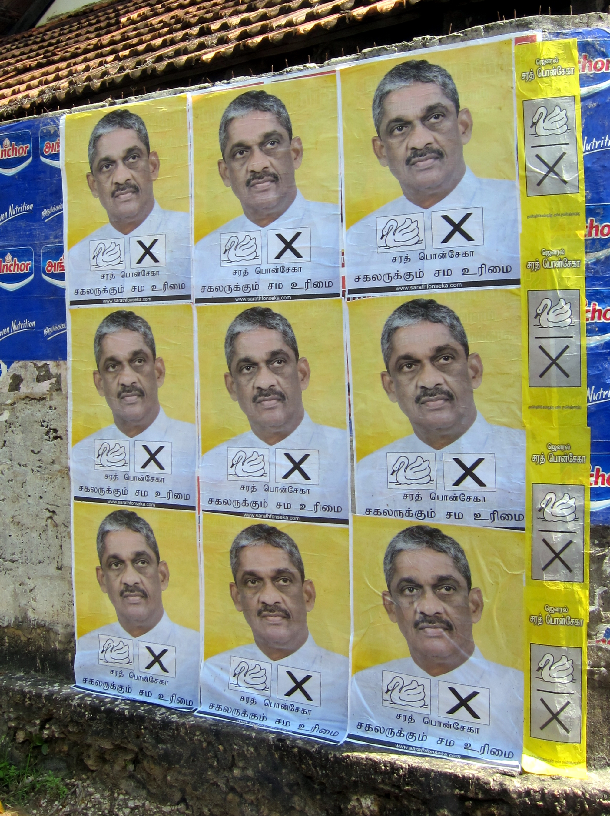 near Casuarina beach